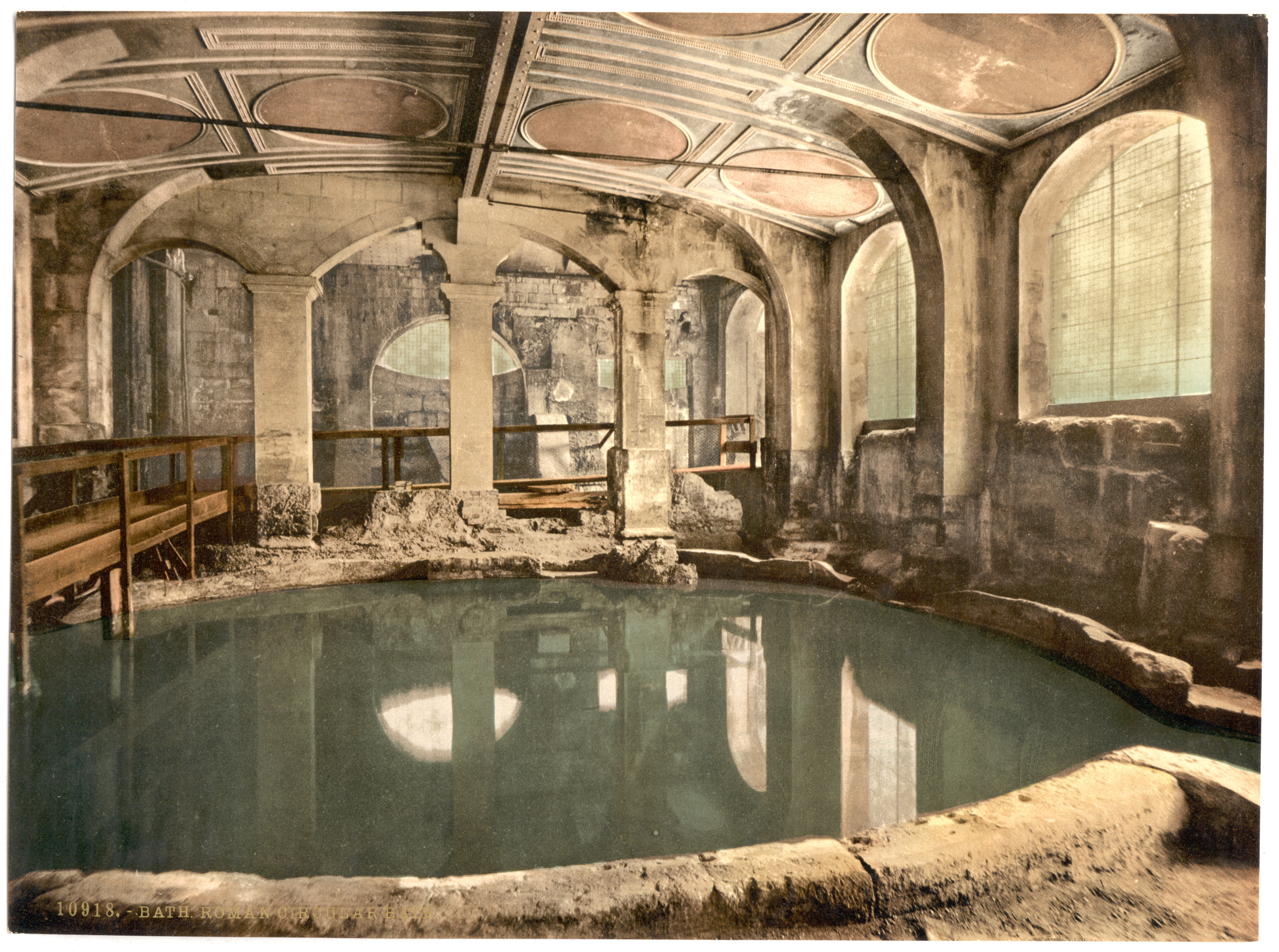 Photochrom of the "Circular Bath" at the Roman Baths in Bath